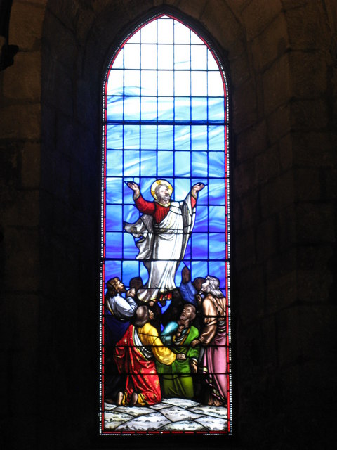 Hexham Abbey - the Ascension window In the north choir aisle. The window, by Wailes, had its tabernacle-work removed in 1960 and replaced by blue and white streaky glass handmade by Hartley Wood of Monkwearmouth. {Source: Hexham Abbey Guide p21.}